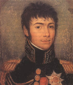 Henri Gatien Bertrand (1773-1840), general of the First French Empire.